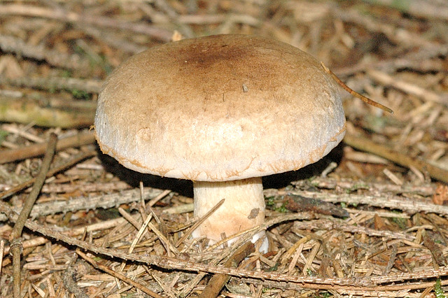 Cortinarius variicolor from Commanster, Belgium. If you think this is a different taxon, please contact James Lindsey.